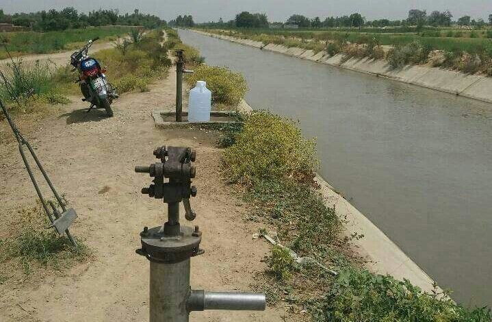 I also Uploaded this Photo on Botala Facebook Page & on website